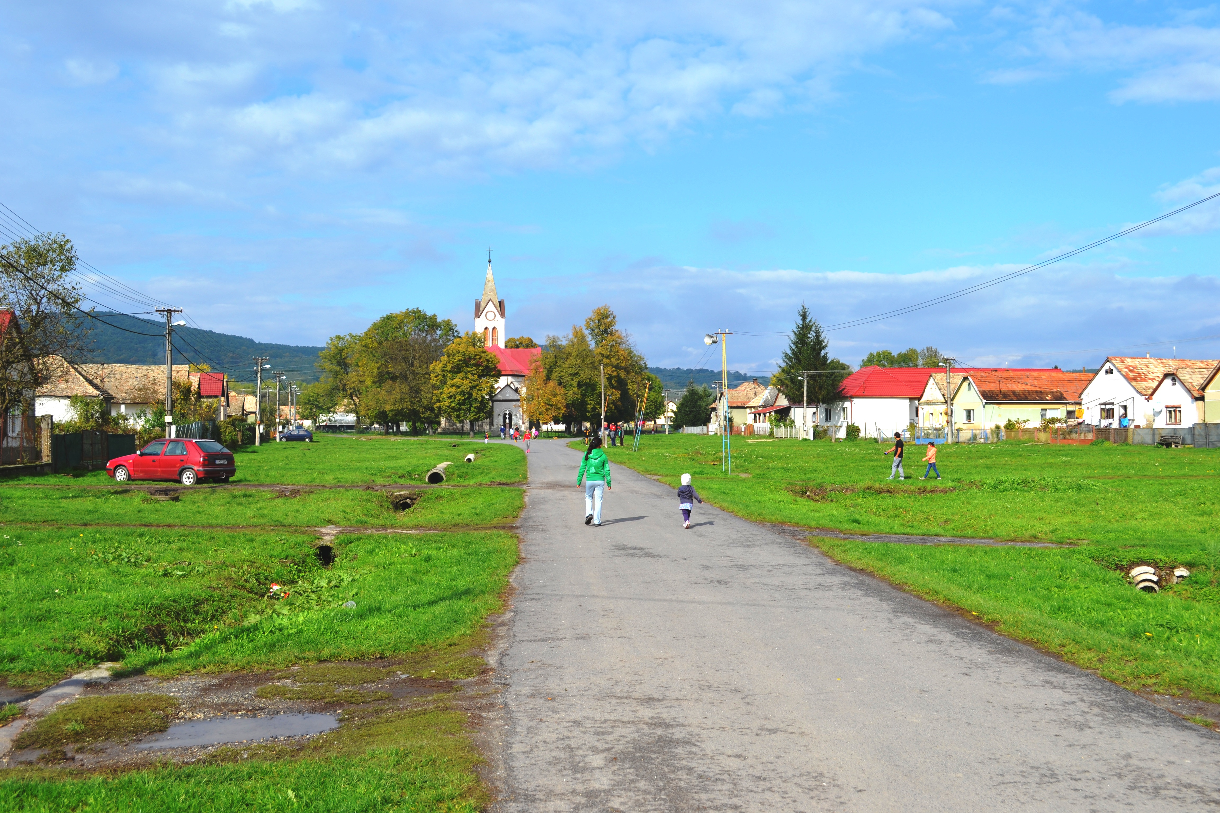 Street of the village Trenč